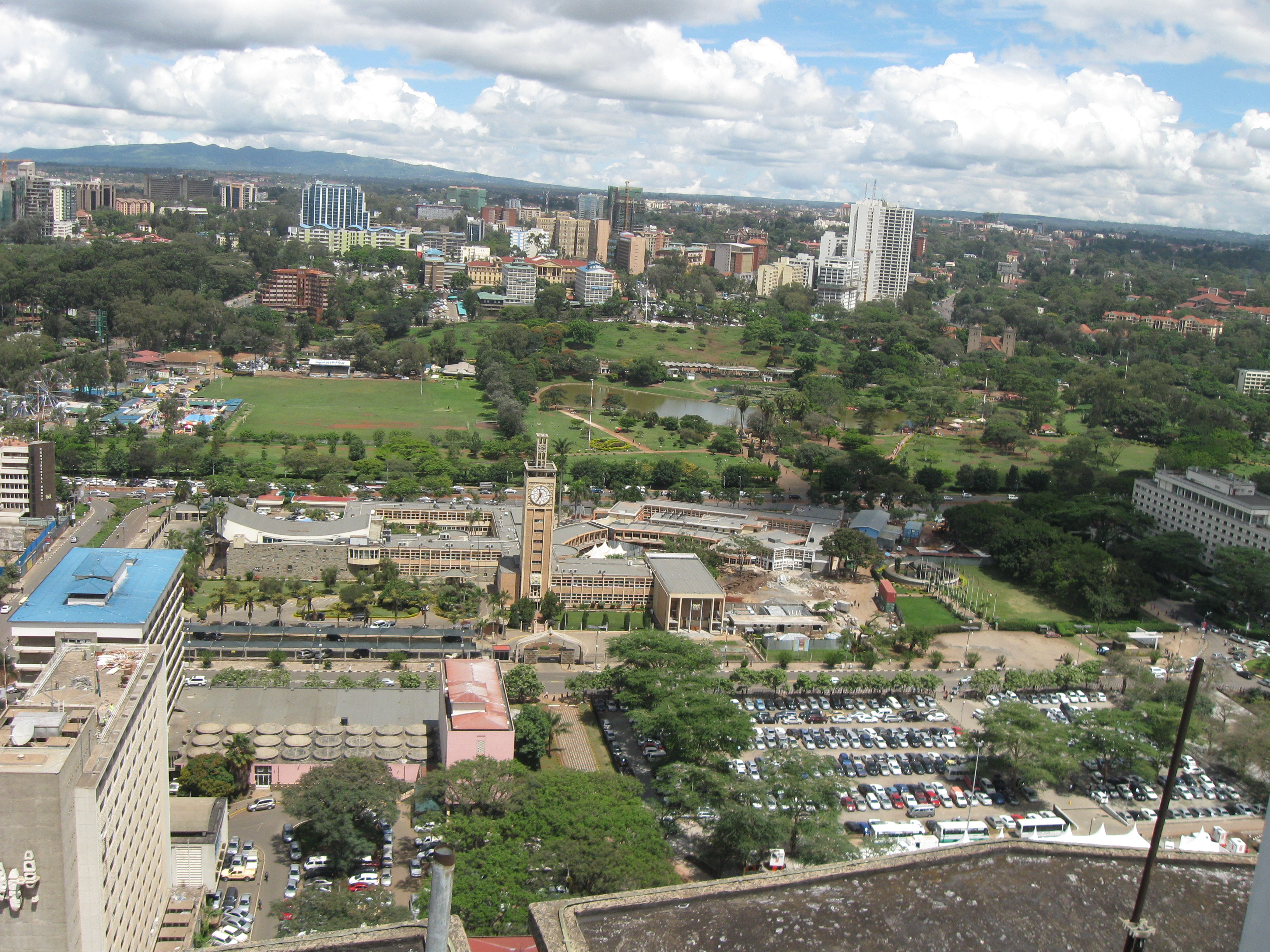 Parliament of Kenya from the Kenyatta International Conference Centre tower